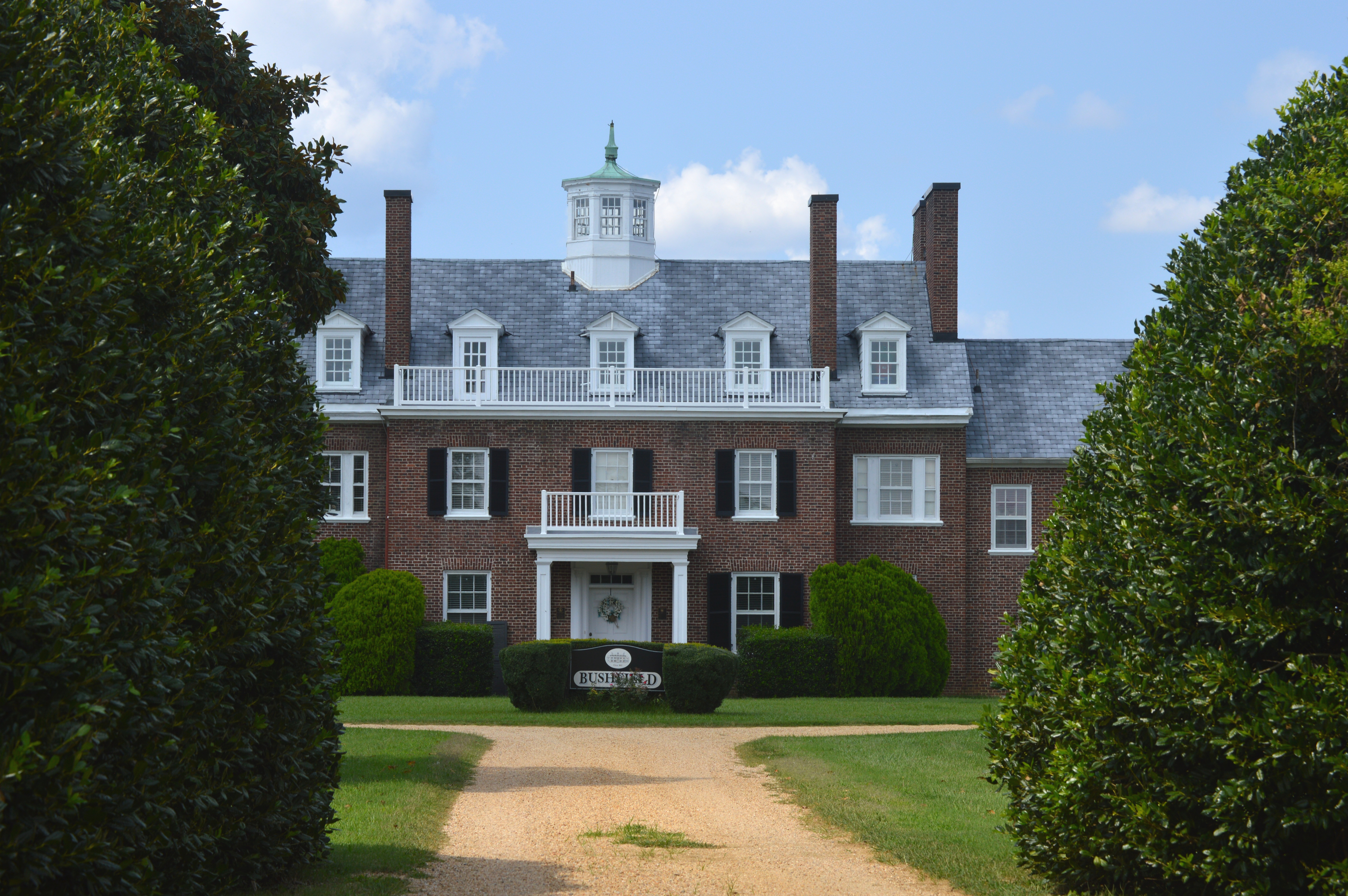 Roadside view of Bushfield, located on Clubhouse Loop north of Mount Holly in Westmoreland County, Virginia, United States. Built before 1800 and significantly expanded in 1916, it is listed on the National Register of Historic Places.